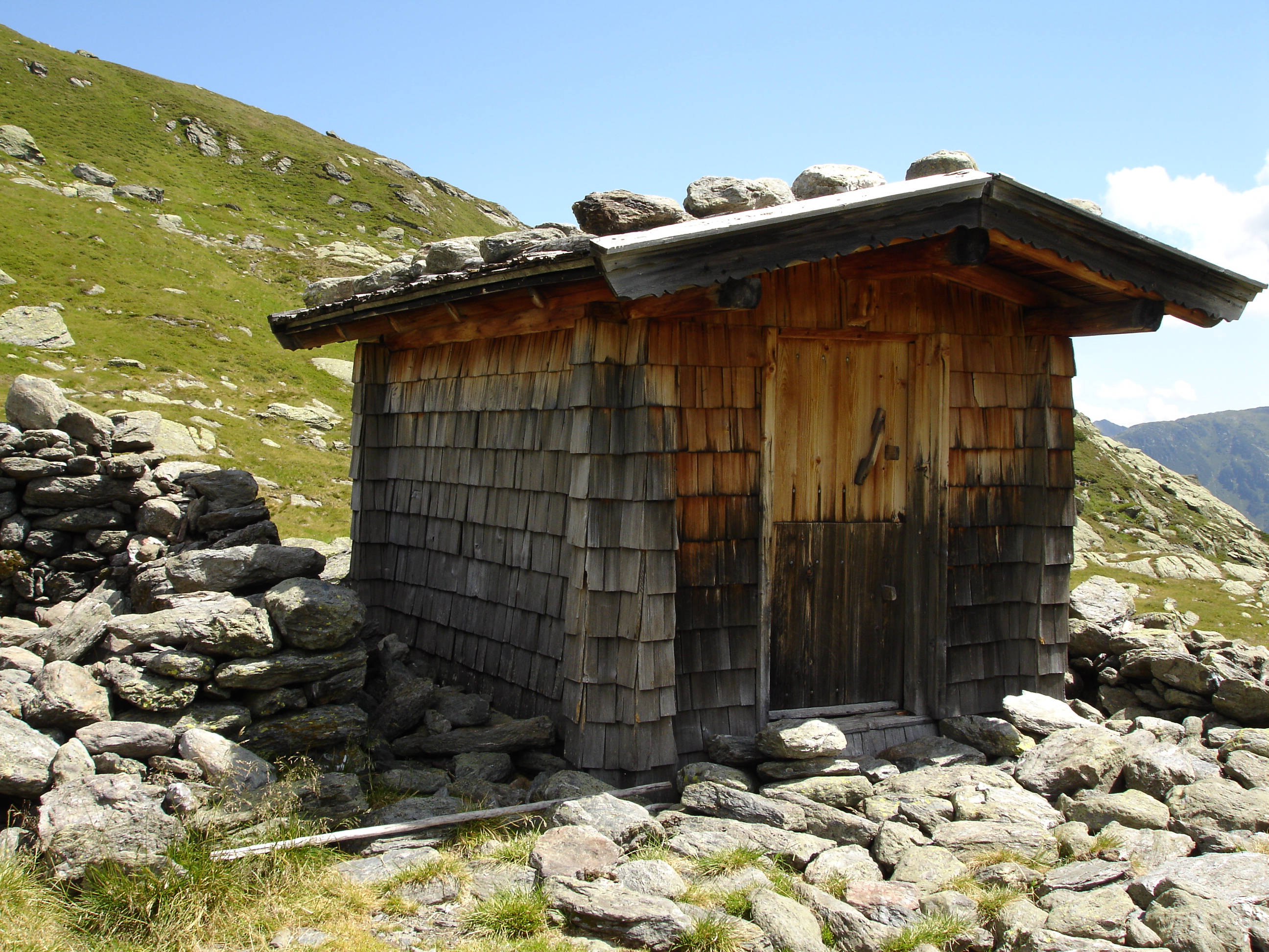 Refuge below the Reinkarsee in the Austrian Alps of Kitzbühel.